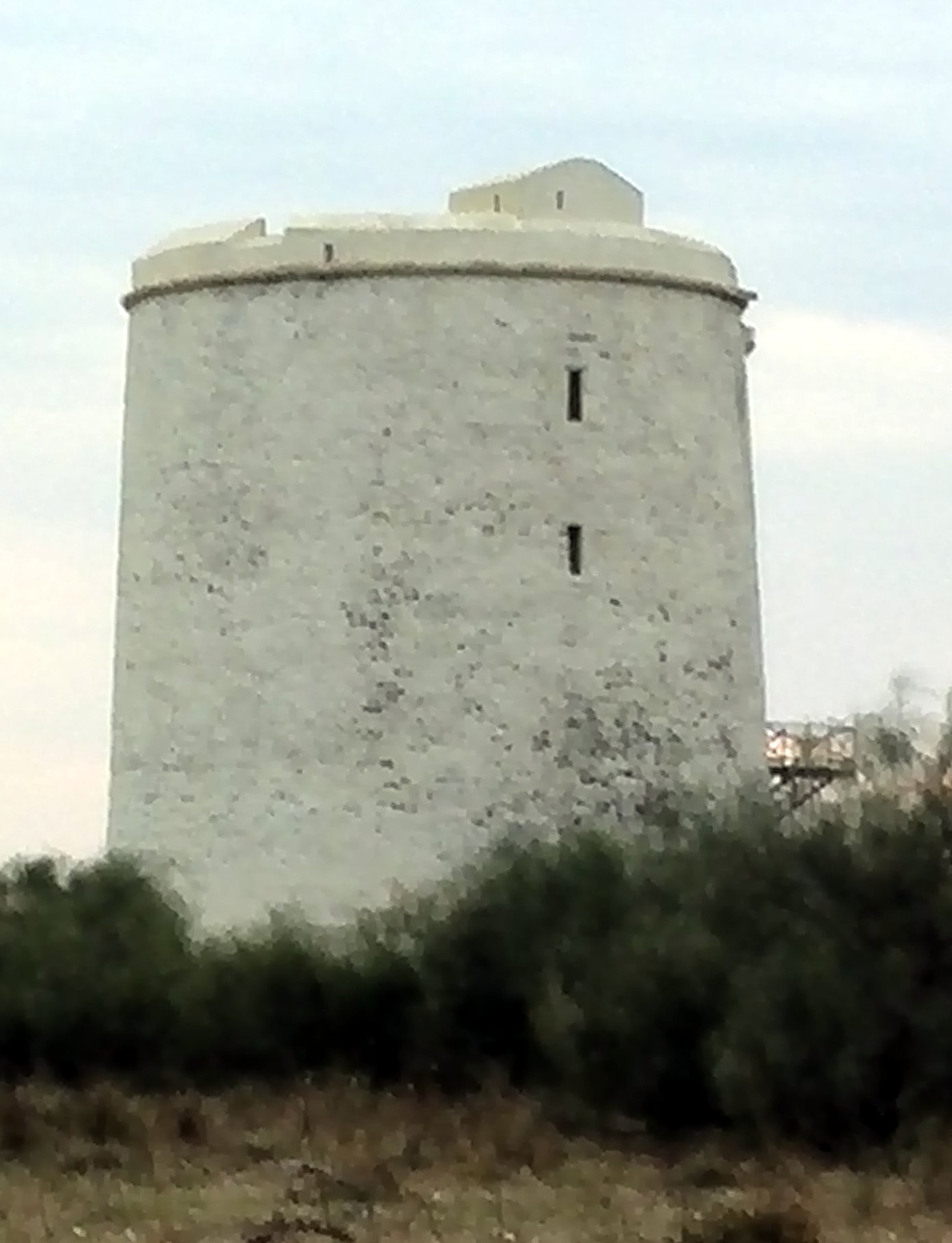 Tower of Isla Canela